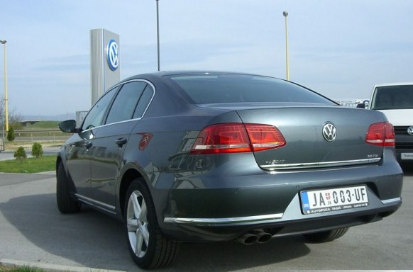 Jagodina Car PLate